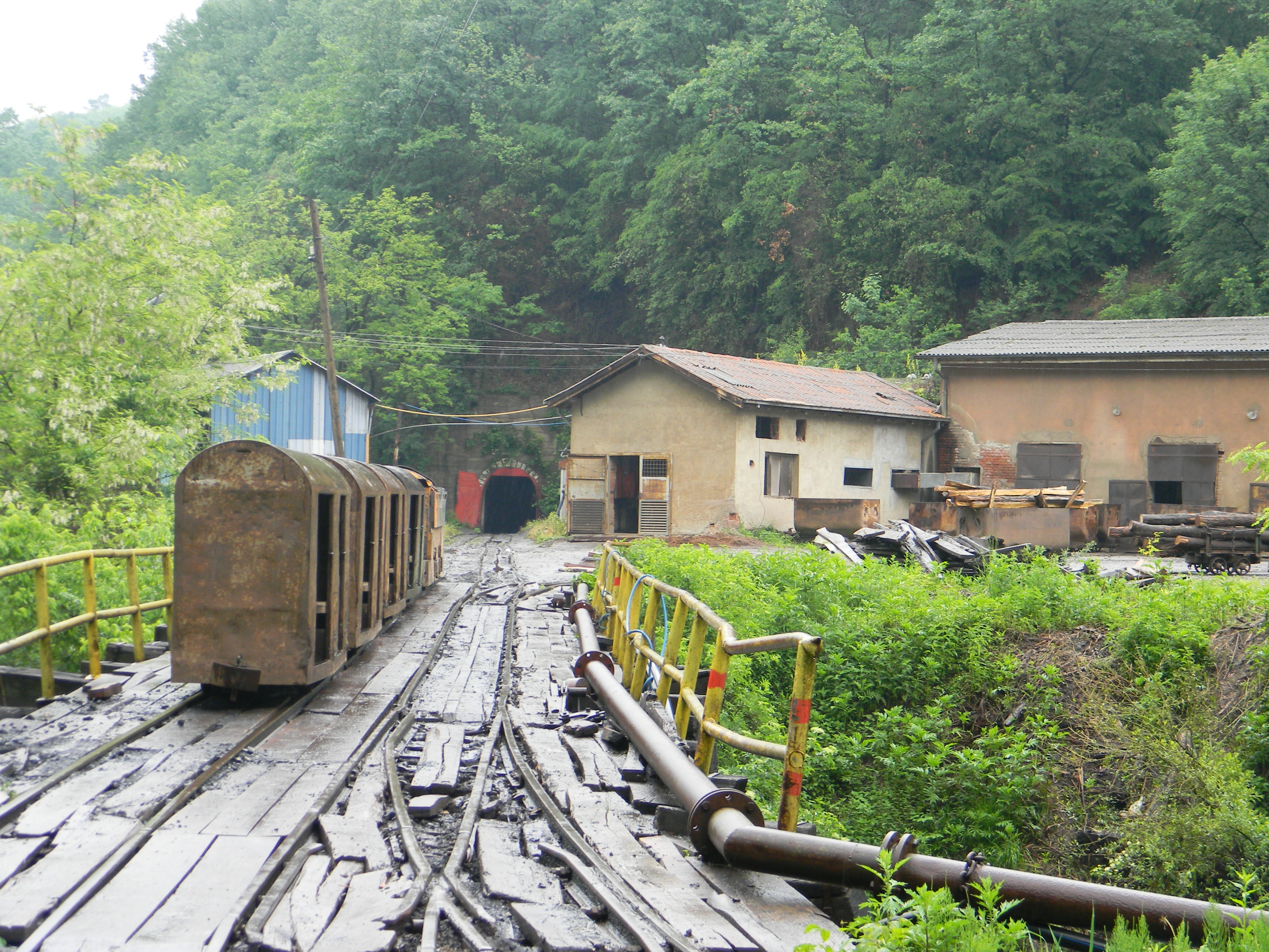 Mine Vodna near Stenjevac, Serbia